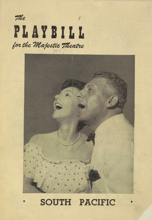 Ezio Pinza and Mary Martin in the original production of South Pacific (Playbill cover illustrated)